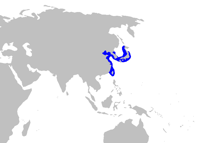 Distribution map for Pristiophorus japonicus